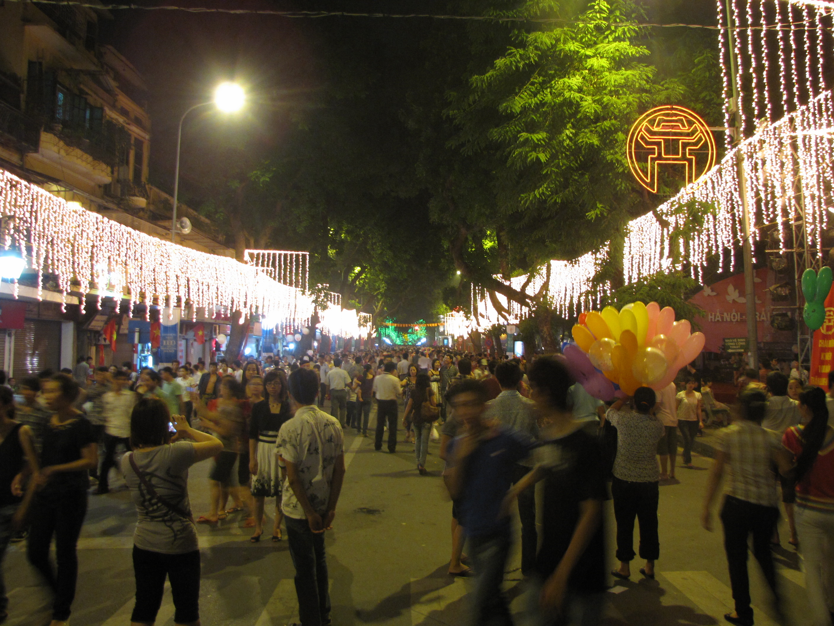 Millennial Anniversary of Hanoi